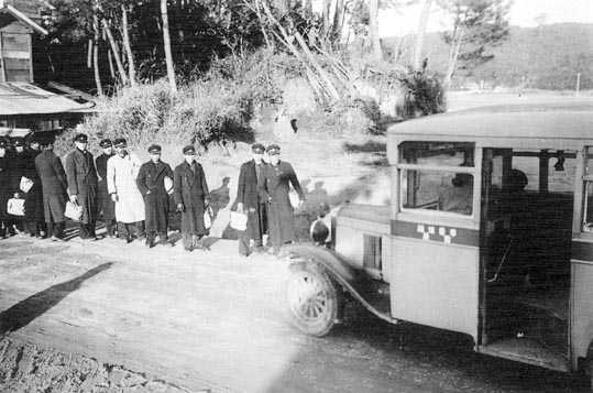 Students of Fukuoka Higher Commercial School (one of the predecessors of Fukuoka University) and a charcoal-powered bus.